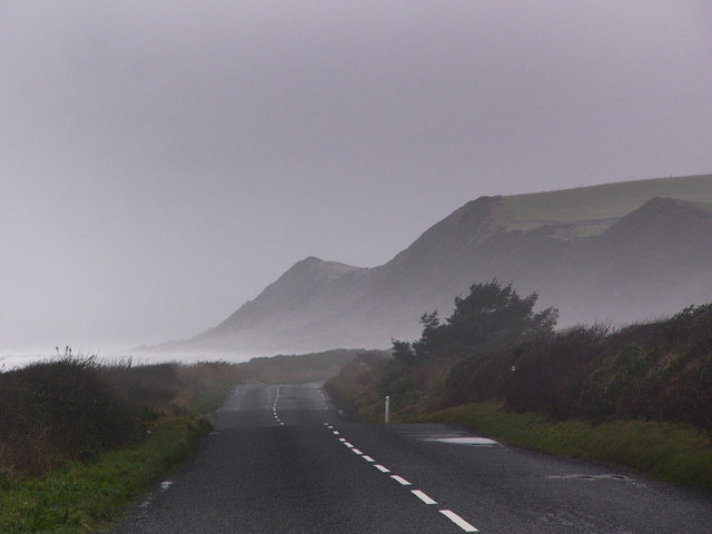 Eastern shore of Luce Bay Looking along the A747 towards Chippermore Heughs. The low mist is actually sea spray thrown up by a gale.